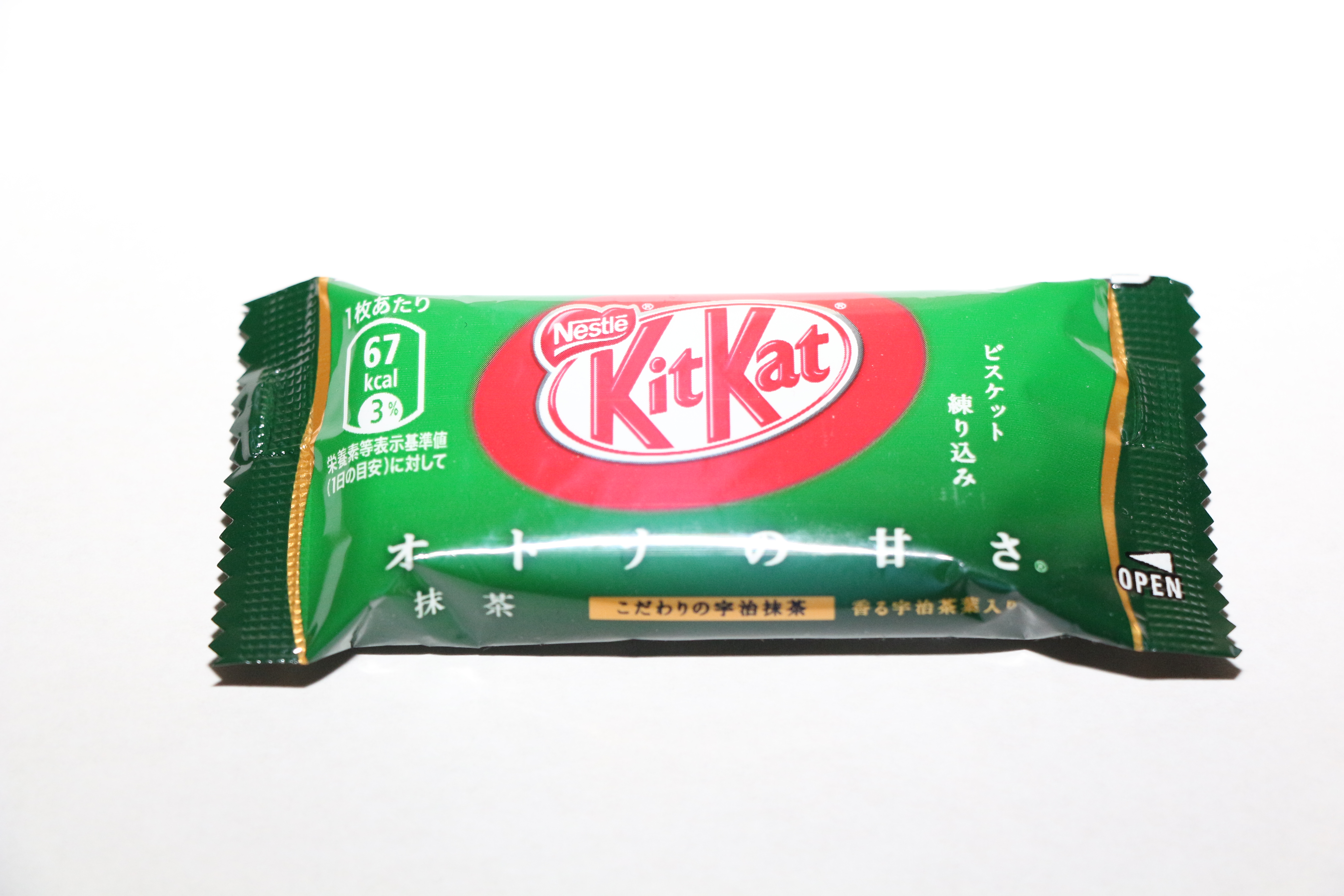 Japanese Kit Kat Bar